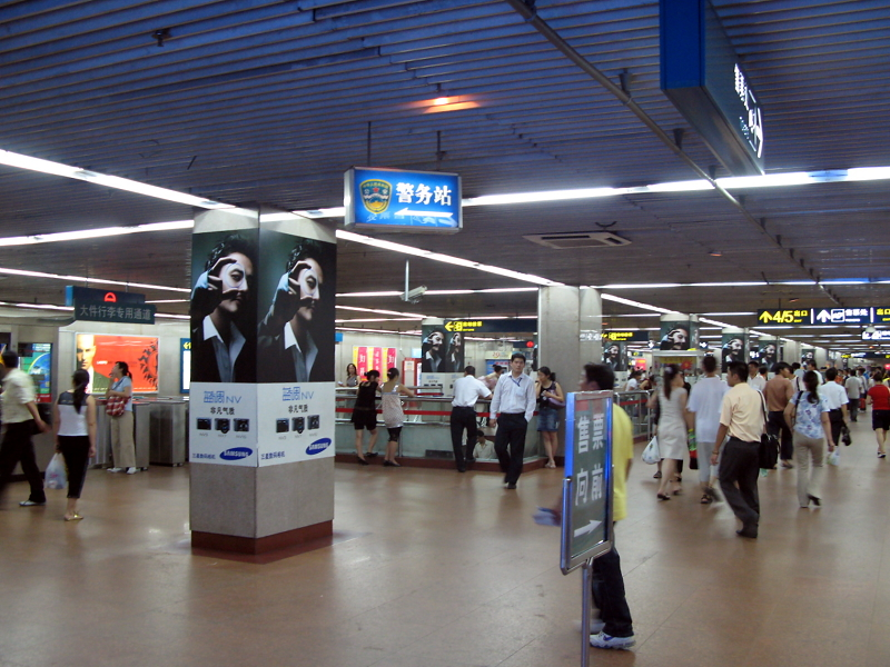 Shanghai Railway Station Underground Metro Station